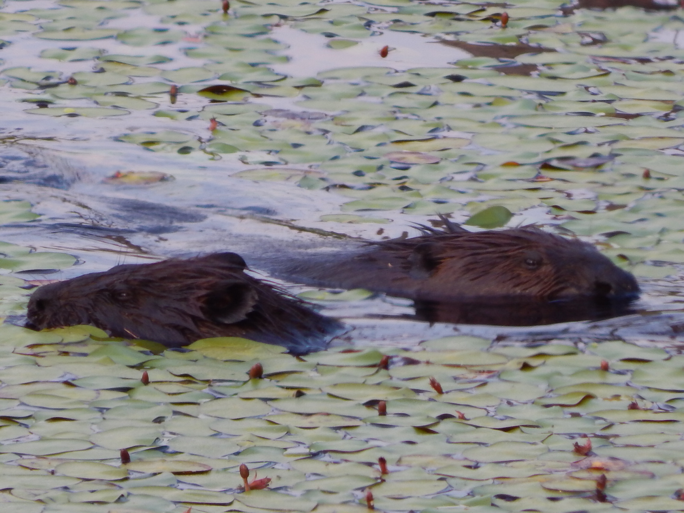 Beavers - Halliegh Marston